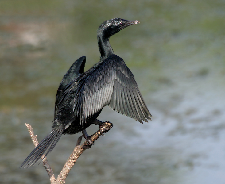 Little Cormorant Phalacrocorax niger at Lotus Pond, Hyderabad, India.